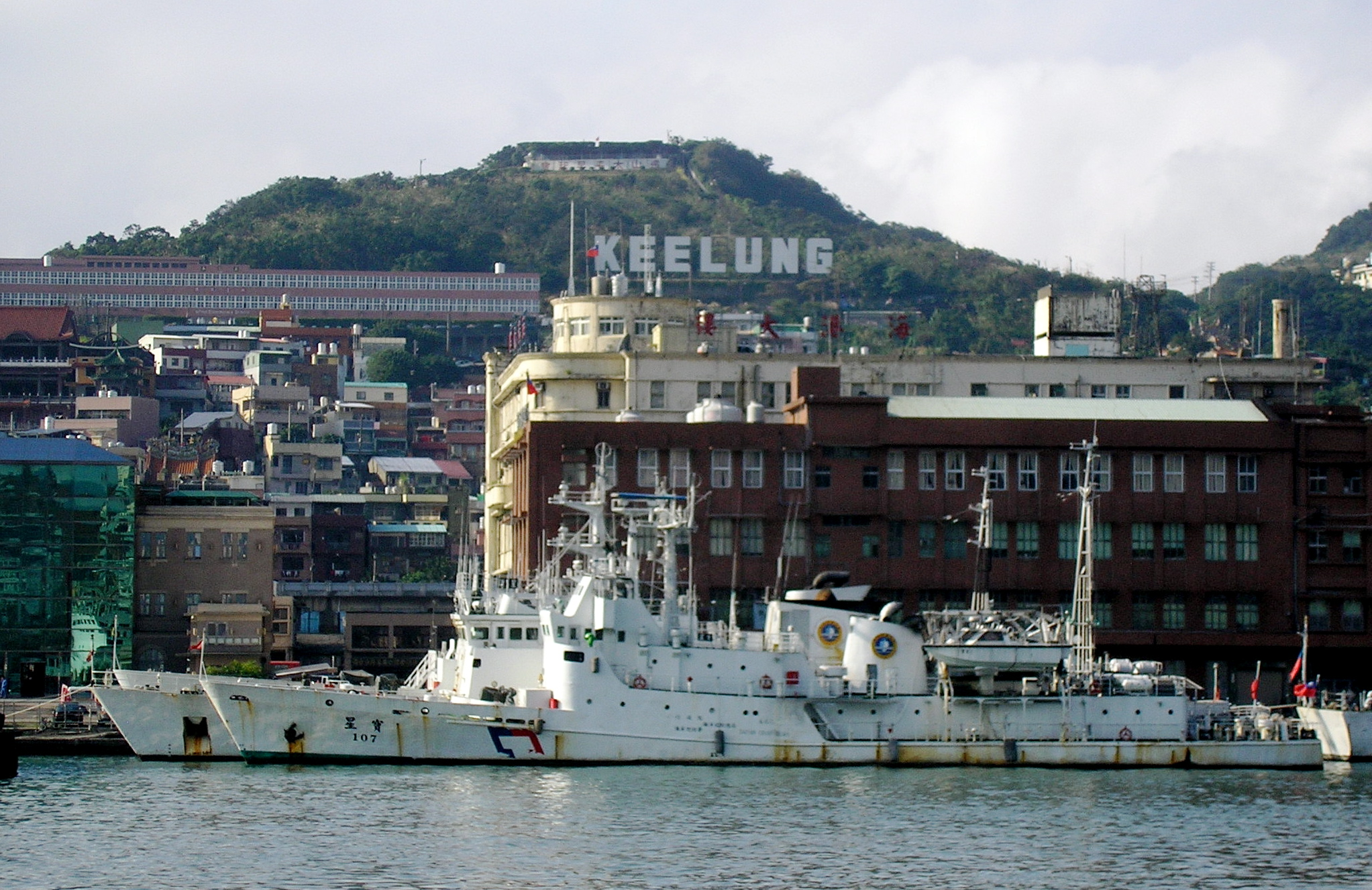 ROC Coast Guard ships docked in Keelung Harbor.